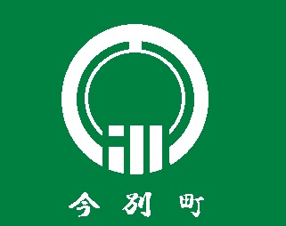 Flag of Imabetsu Aomori